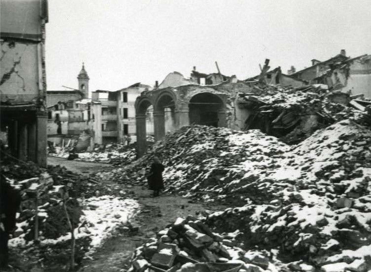 Destruction from the air raids in Via Lame, Bologna (Italy), during World War II.